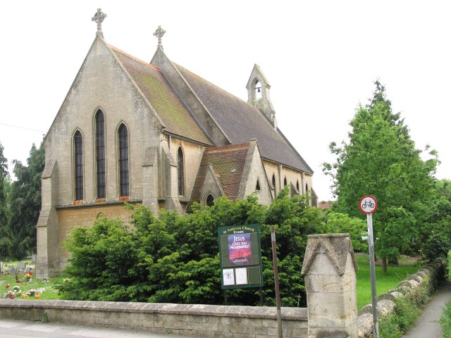 St Andrews Church on Church Lane. One of two churches on Church Lane - the other being a methodist chapel